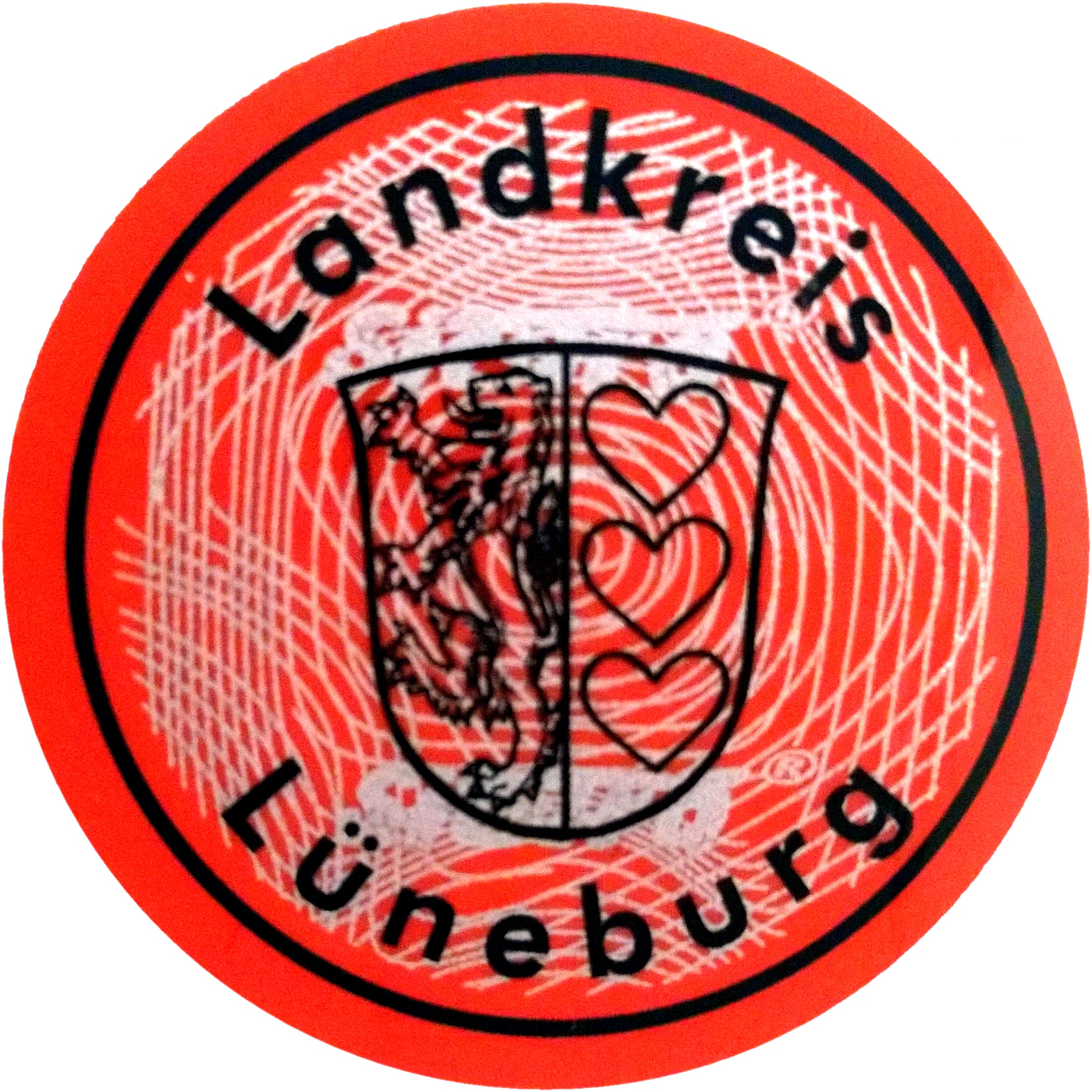 Zulassungsplakette des Landkreises Lüneburg für Ausfuhrkennzeichen